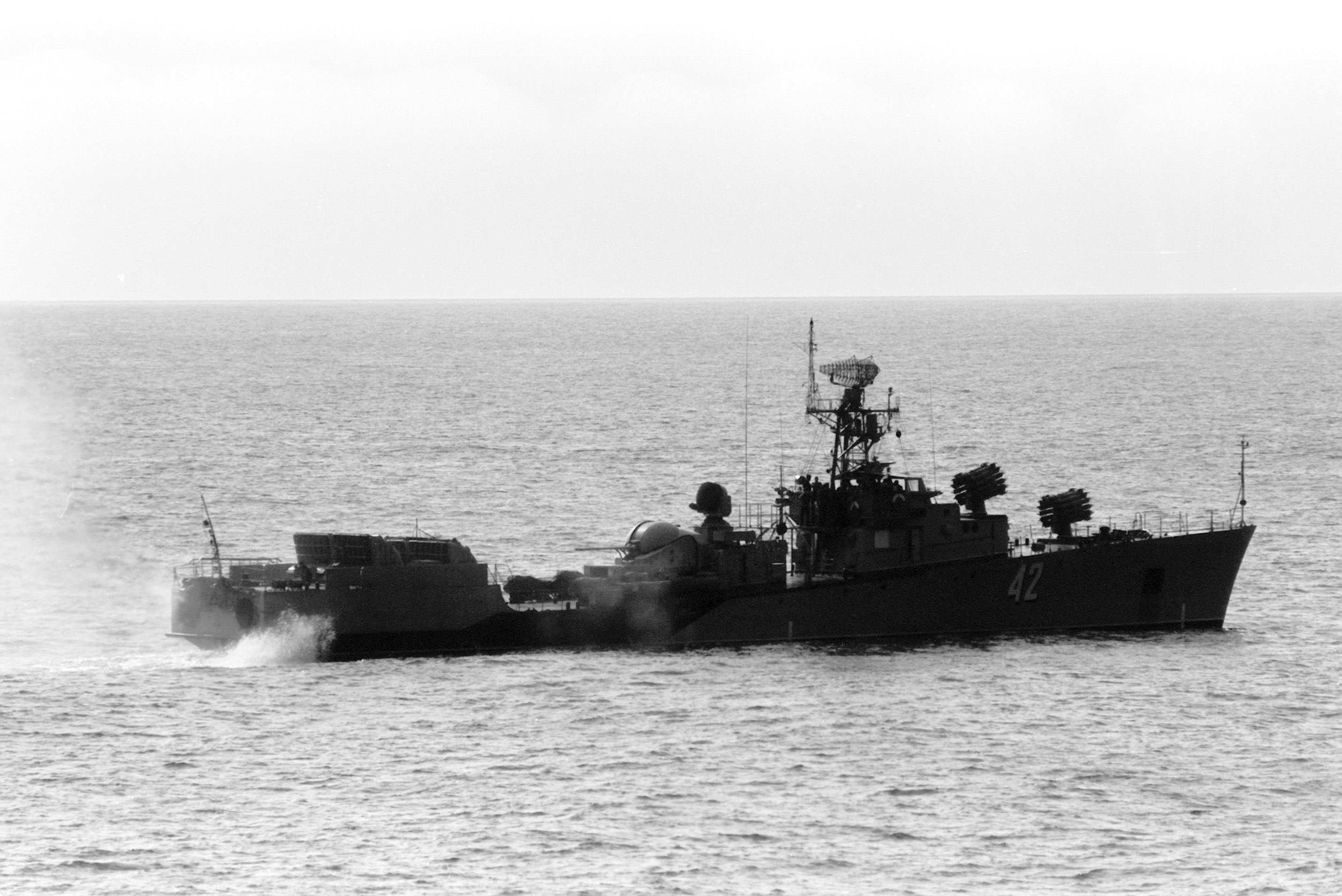 A starboard quarter view of a Soviet Poti class fast attack patrol craft underway. This ship is Bulgarian project 204 small anti-submarine ship No42 Bditelni.